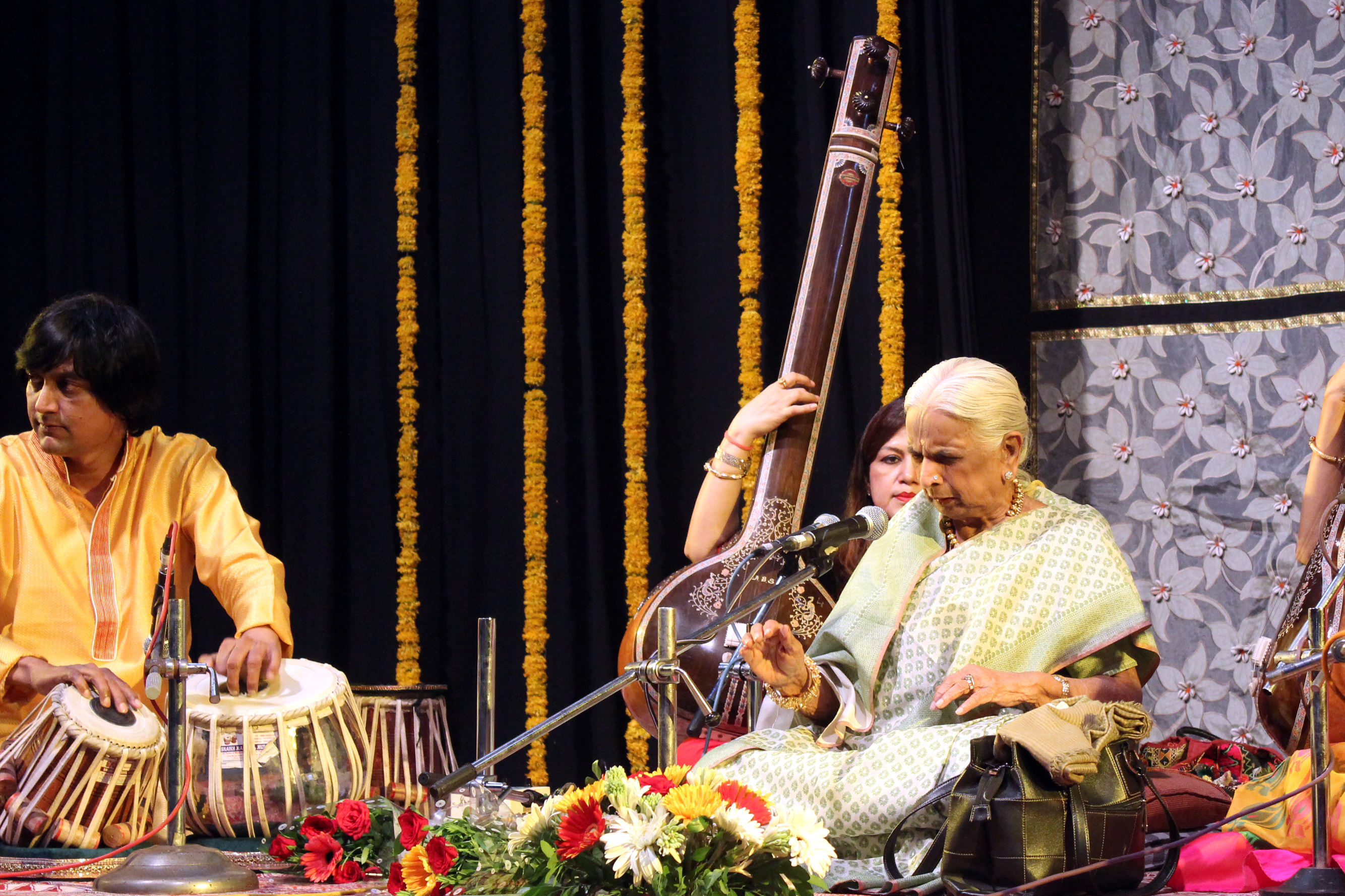 Girija Devi Performing at Bharat_Bhavan Bhopal in July 2015 in a program - Uttar Pradesh Mahotsav